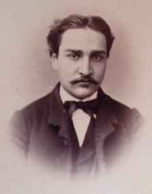 Italian composer Guido Tacchinardi (1840-1917)